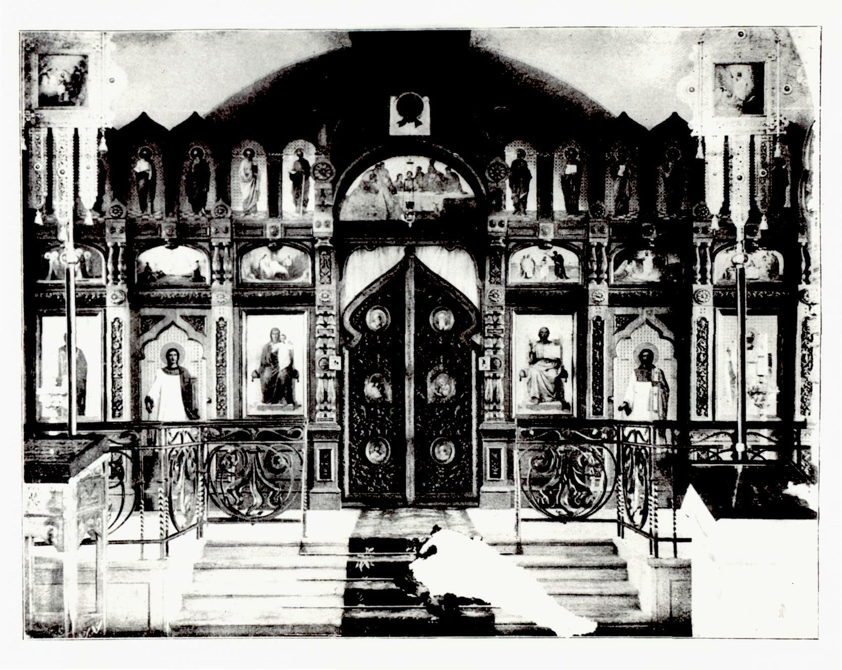 Pavlovsk (Russia)